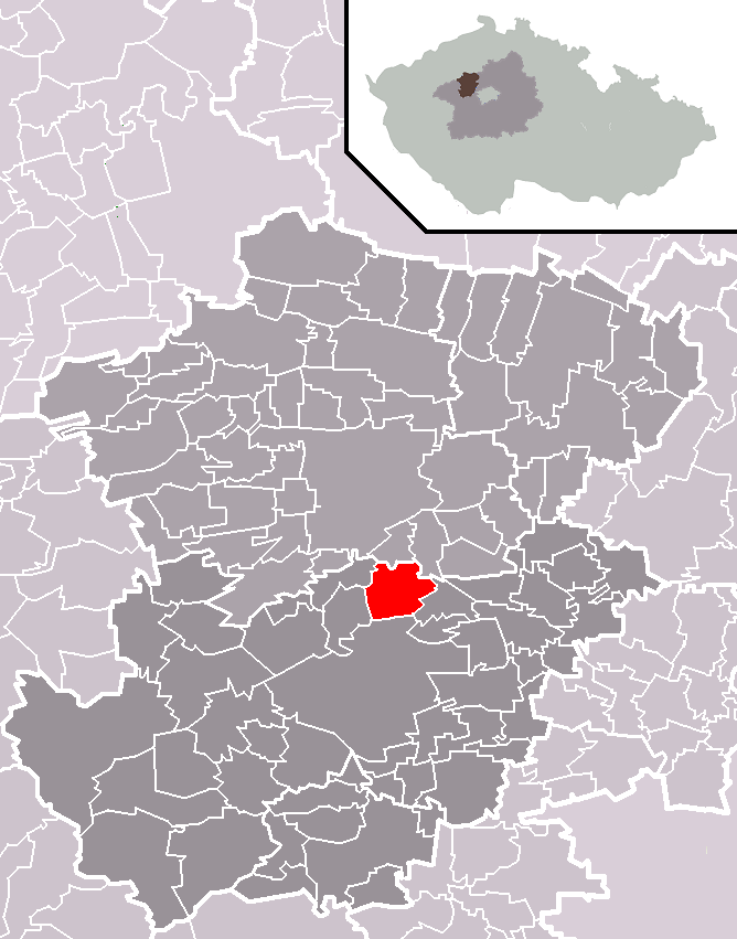 Location of Pchery municipality within Kladno District and administrative area of Kladno as a Municipality with Extended Competence.